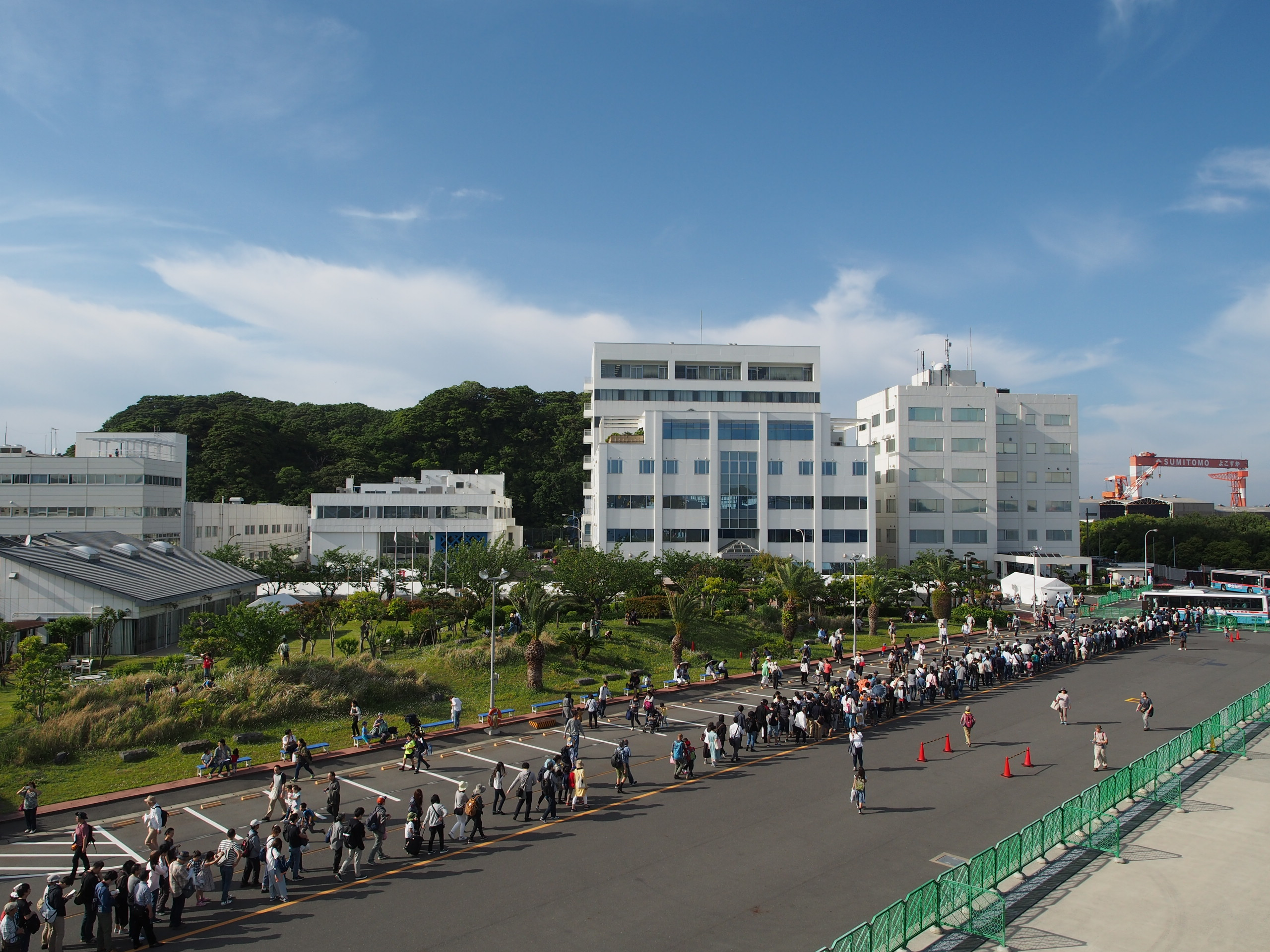 A scene of the open house day of JAMSTEC Yokosuka Headquarters in Yokosuka, Kanagawa, Japan.